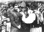 Shot is from film "Shchors" (1939) by Kiev Film Studio (now Dovzhenko Film Studios). Directed by Alexander Dovzhenko (1894 - 1956).